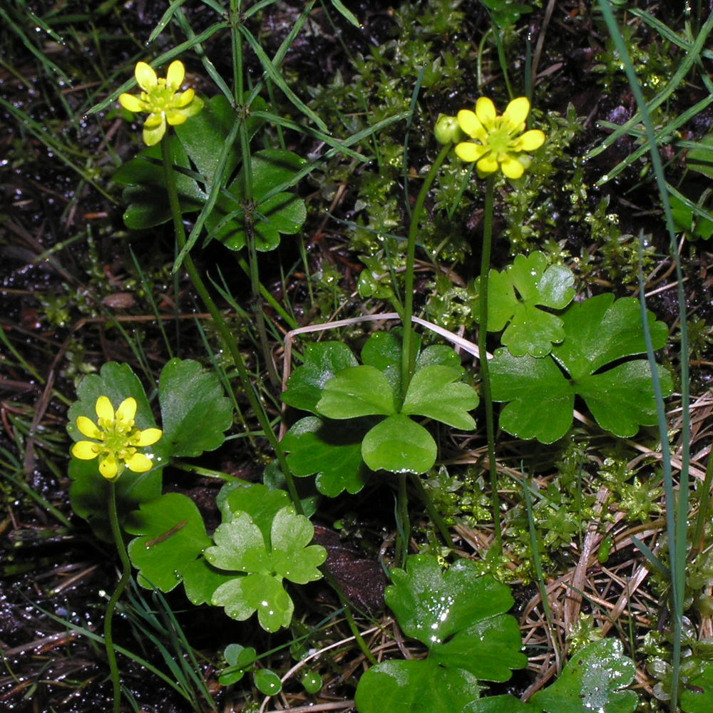 Coptidium lapponicum (syn. Ranunculus lapponicus), Rörmyran, Vännäs, Sweden.